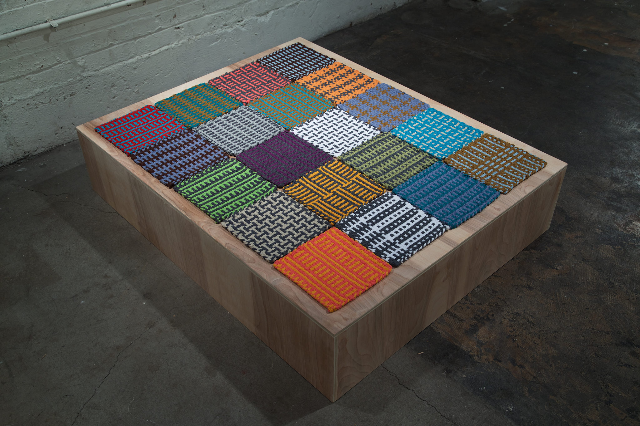 Plywood and Cotton 10"x37"x47" 2016